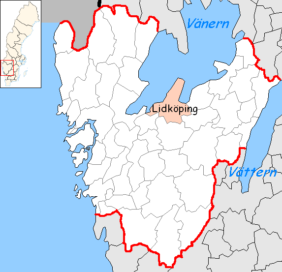 Lidköping Municipality in Västra Götaland County Designed by me. Mere outlines are a PD source from